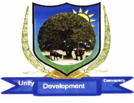 Coat of arms of Eenhana, Namibia